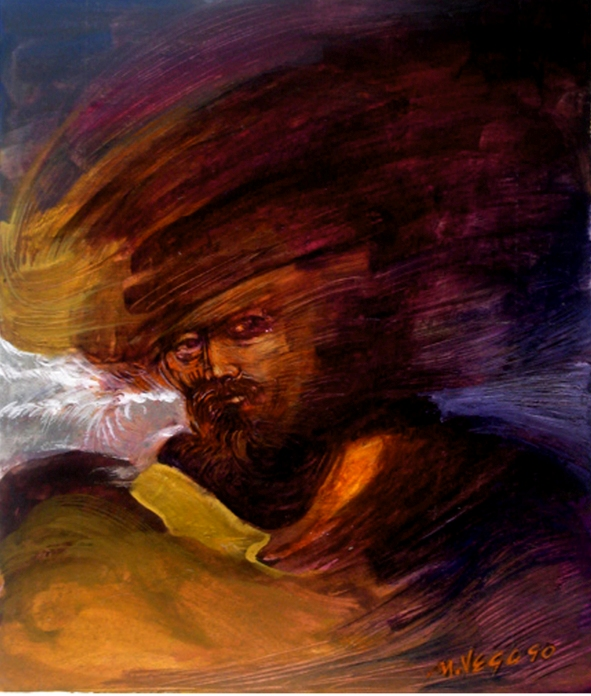 1 Painting Corsario (Privateer) by Mauricio García Vega